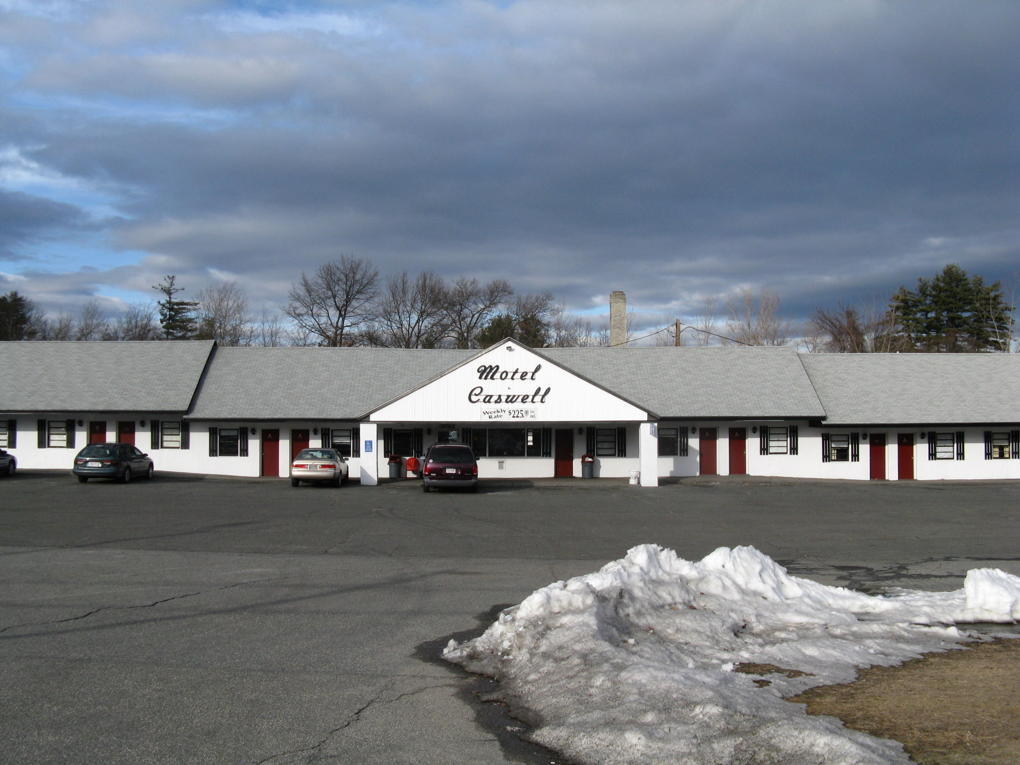 Motel Caswell, Wamesit Massachusetts